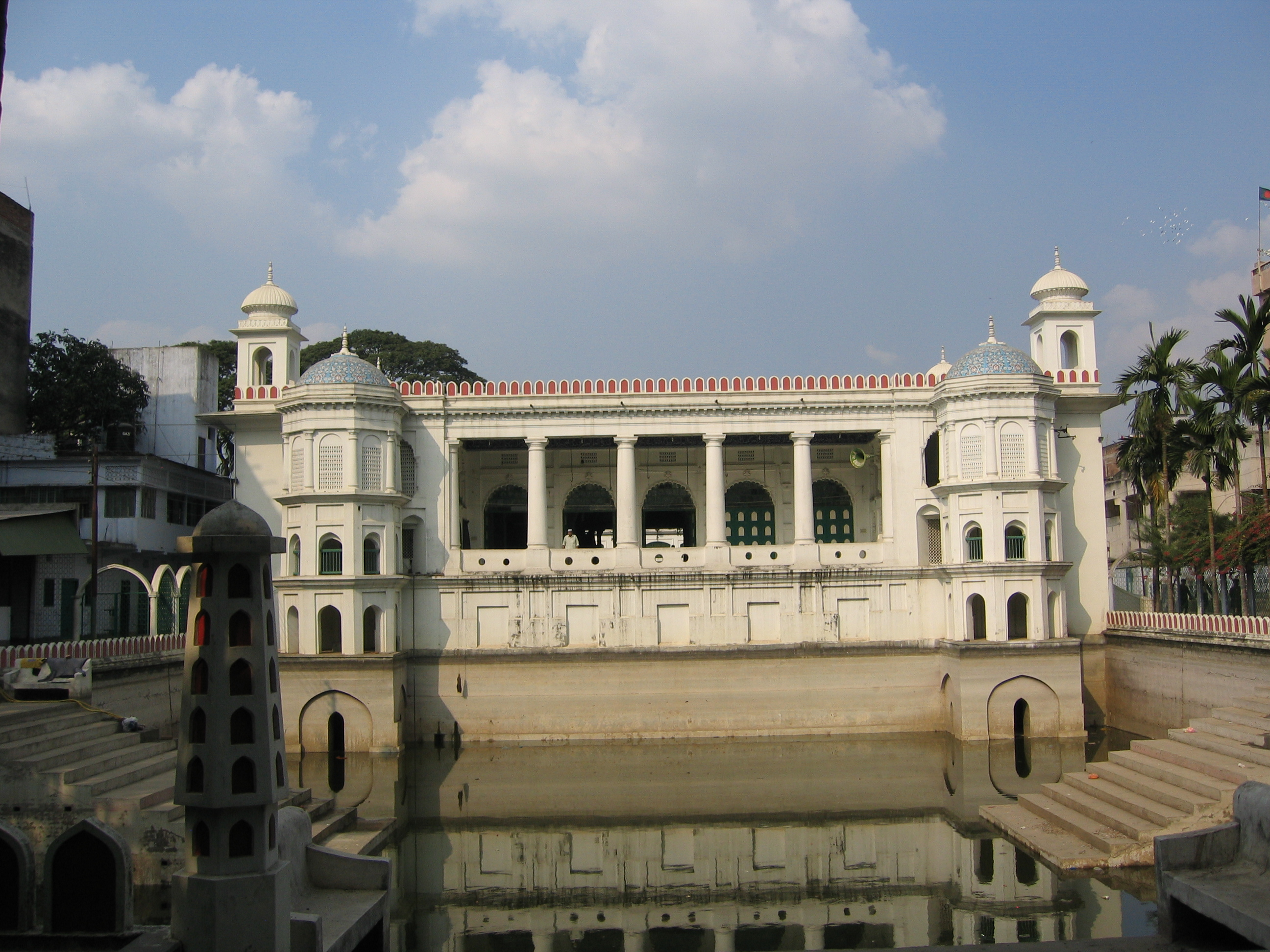 South face of the Hoseni Dalan in Old Dhaka, Bangladesh.